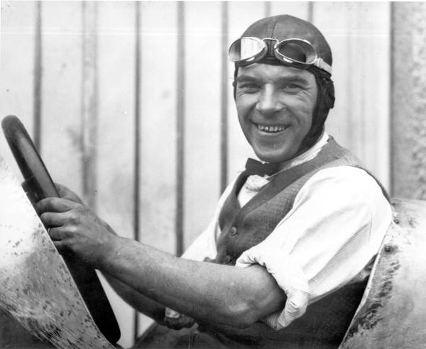 Portrait of Sig Haugdahl. He raced and owned a racing garage in Daytona Beach. He is shown seated at the wheel of his Miller 8 Special.